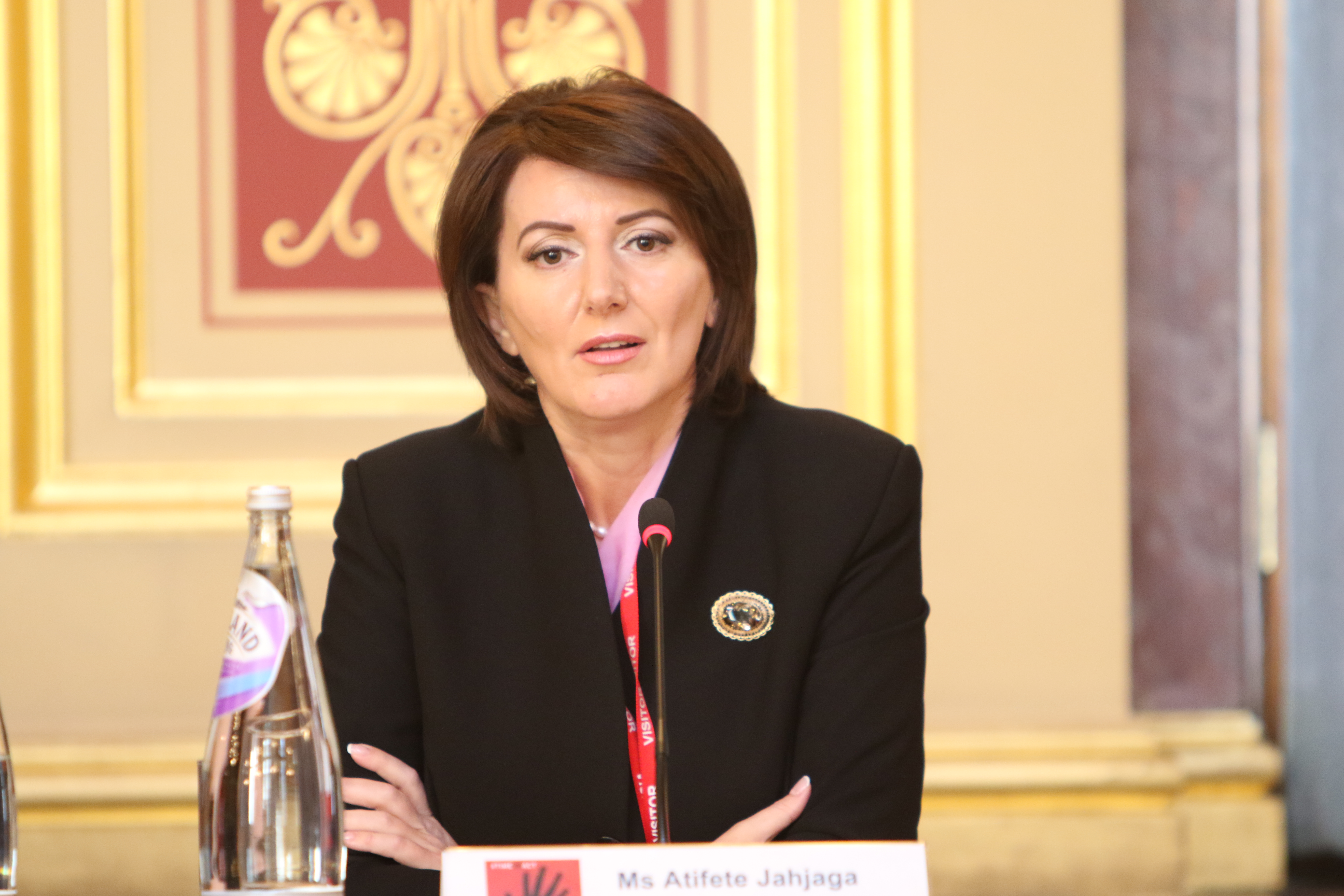 Former President of Kosovo, Ms Atifete Jahjaga at the Preventing Sexual Violence Initiative (PSVI) event in London, 13 March 2017. Read more.